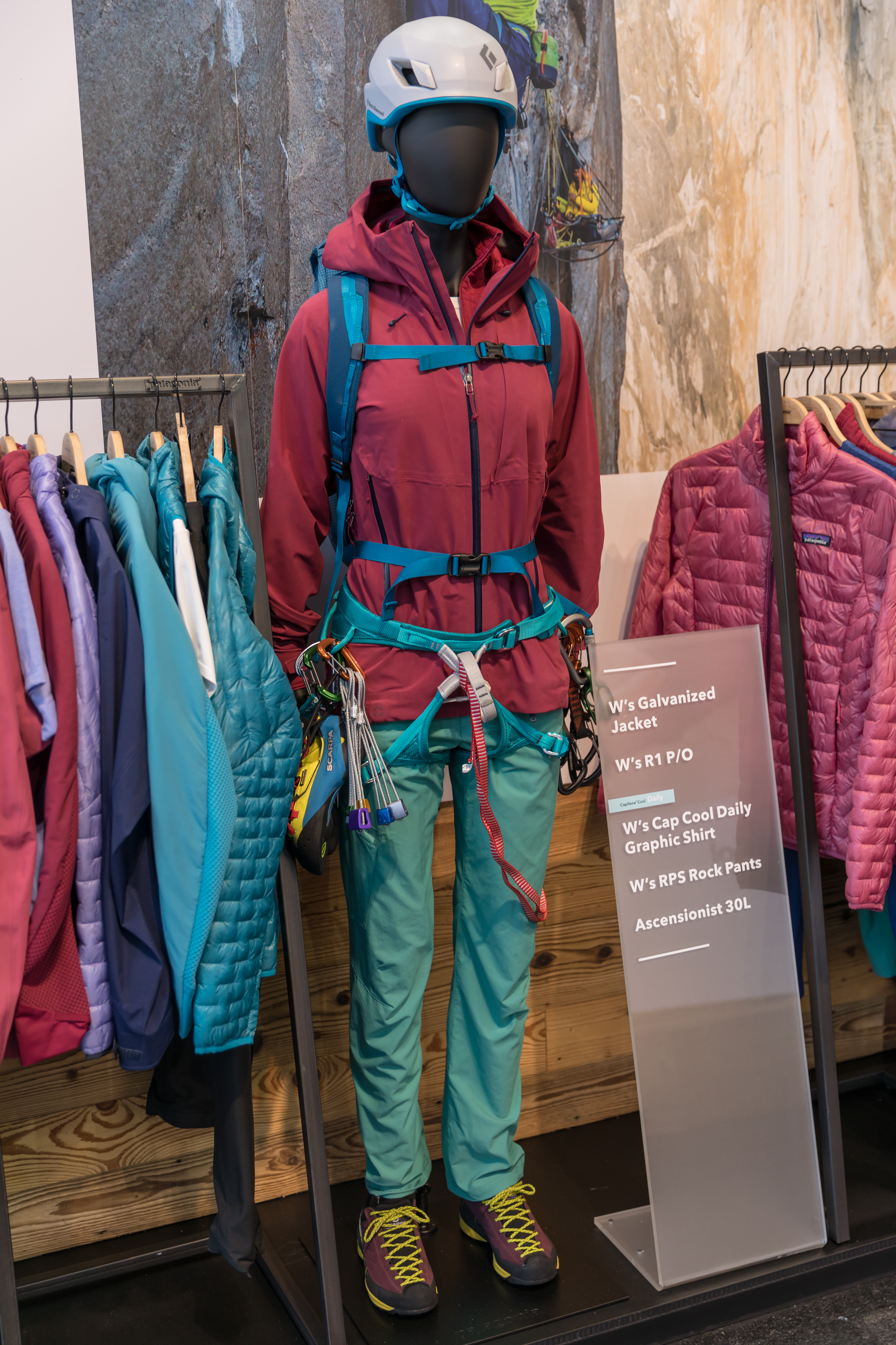 Mannequin in Patagonia clothes and Black Diamond climbing gear, press preview, OutDoor 2018